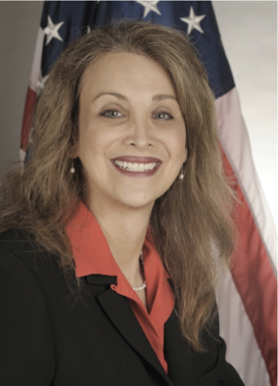 Official profile photo of Amanda Simpson, Sr. Technical Adviser, Department of Commerce